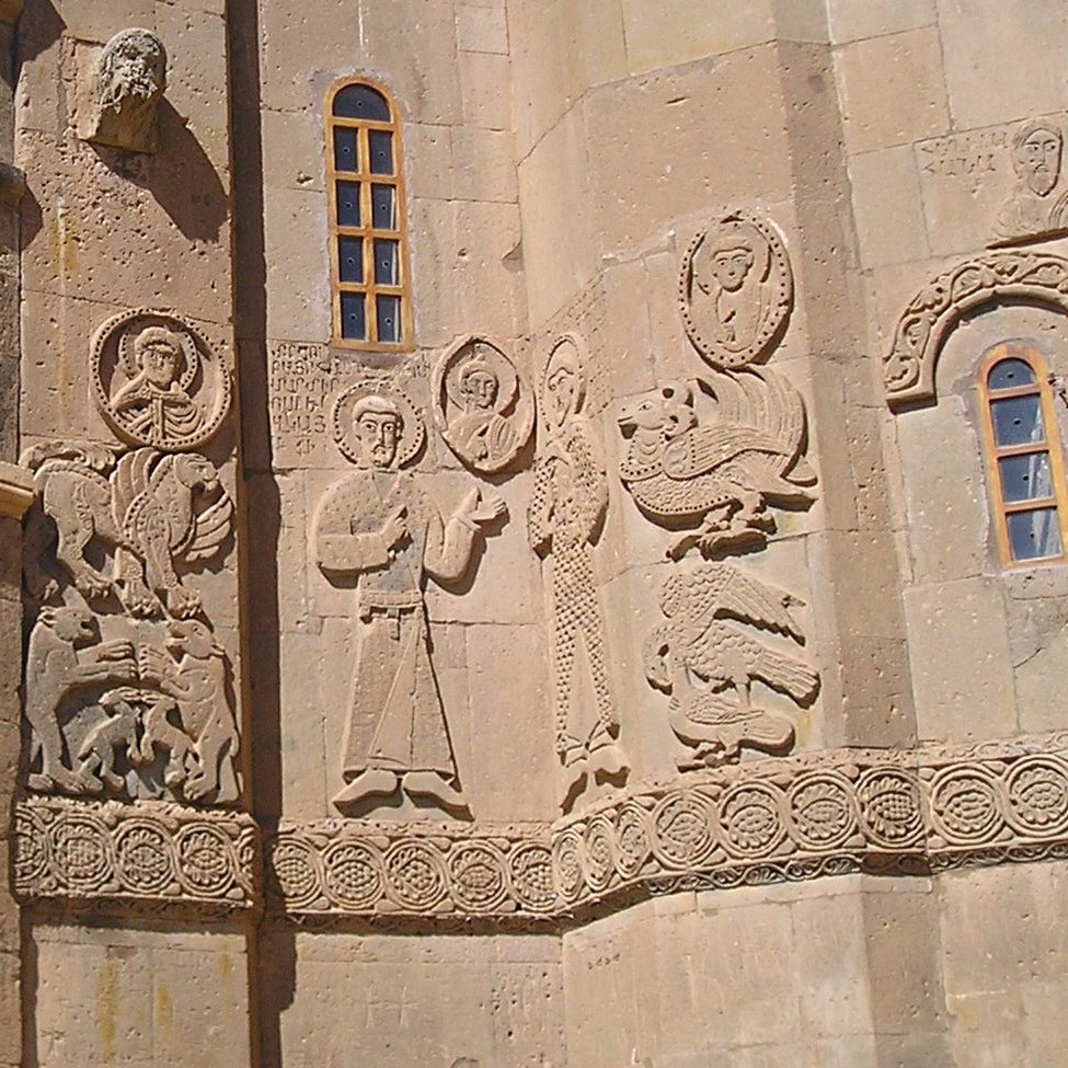 Southern wall of Aghtamar, Turkey